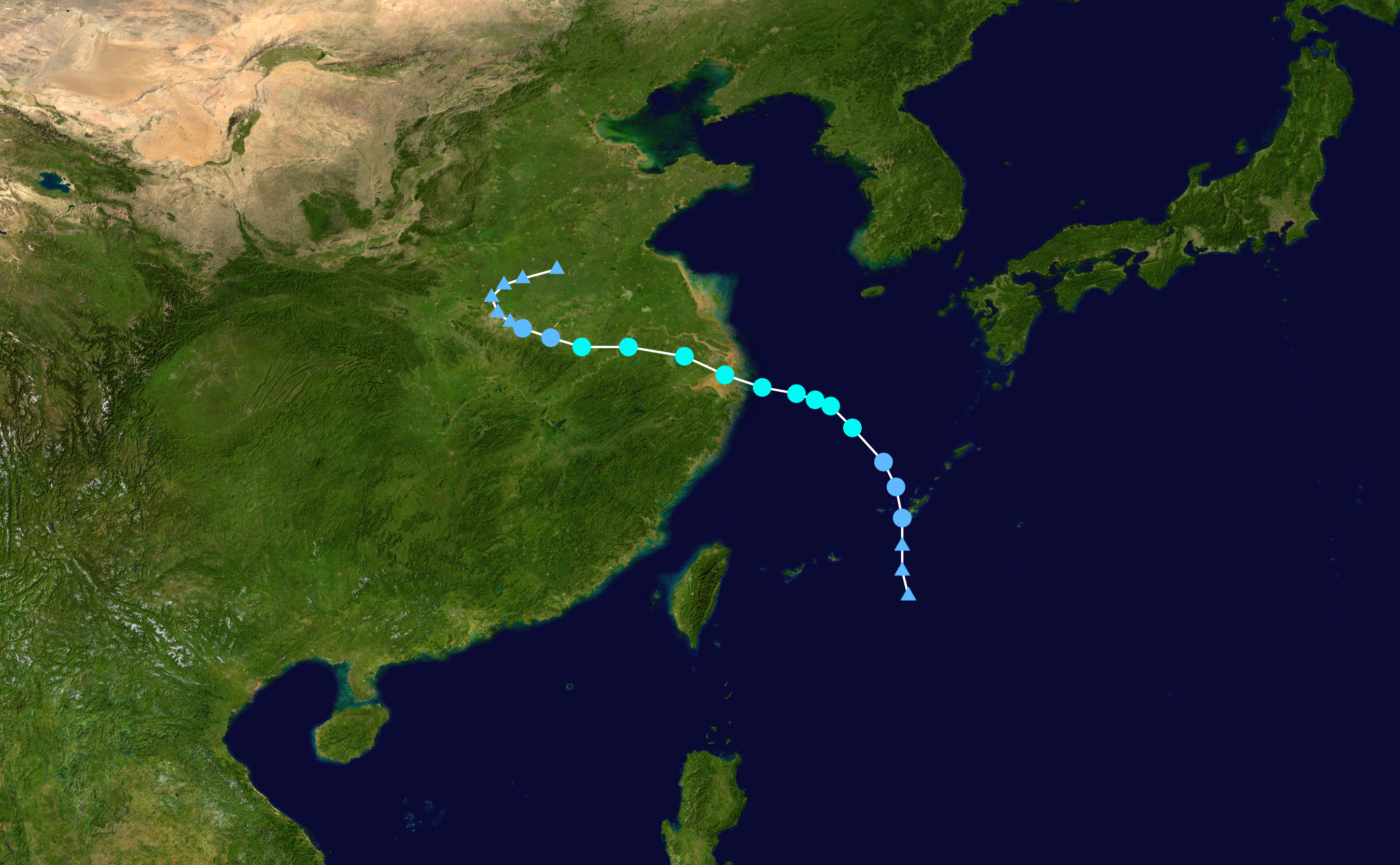 Track map of Tropical Storm Rumbia of the 2018 Pacific typhoon season. The points show the location of the storm at 6-hour intervals. The colour represents the storm's maximum sustained wind speeds as classified in the Saffir–Simpson scale (see below), and the shape of the data points represent the nature of the storm, according to the legend below. Saffir–Simpson scale Tropical depression≤38 mph≤62 km/h Category 3111–129 mph178–208 km/h Tropical storm39–73 mph63–118 km/h Category 4130–156 mph209–251 km/h Category 174–95 mph119–153 km/h Category 5≥157 mph≥252 km/h Category 296–110 mph154–177 km/h Unknown Storm type Tropical cyclone Subtropical cyclone Extratropical cyclone / Remnant low / Tropical disturbance / Monsoon depression